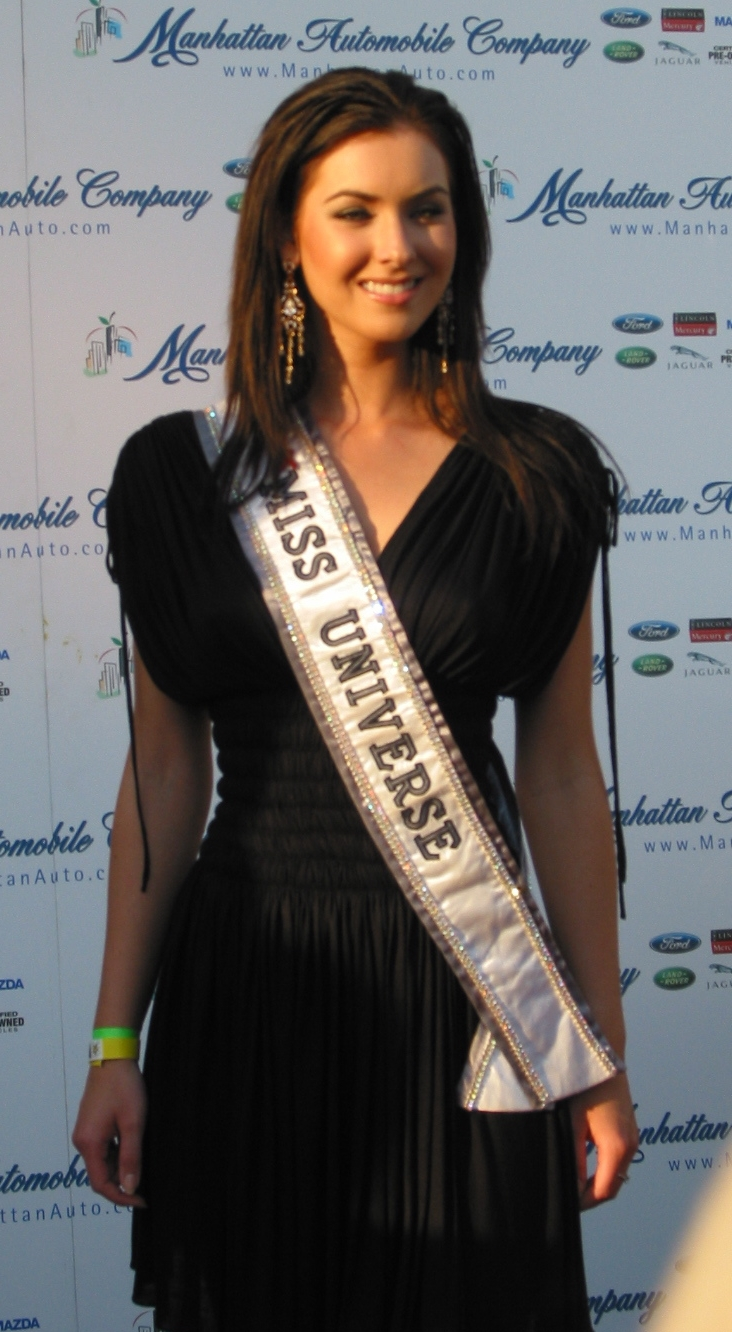 Natalie Glebova, Miss Universe 2005, at the "US Open Star Serena Williams and Top Seed Bob Bryan and Mike Bryan Serve it Up on a Rooftop Tennis Court at Manhattan Land Rover" event.